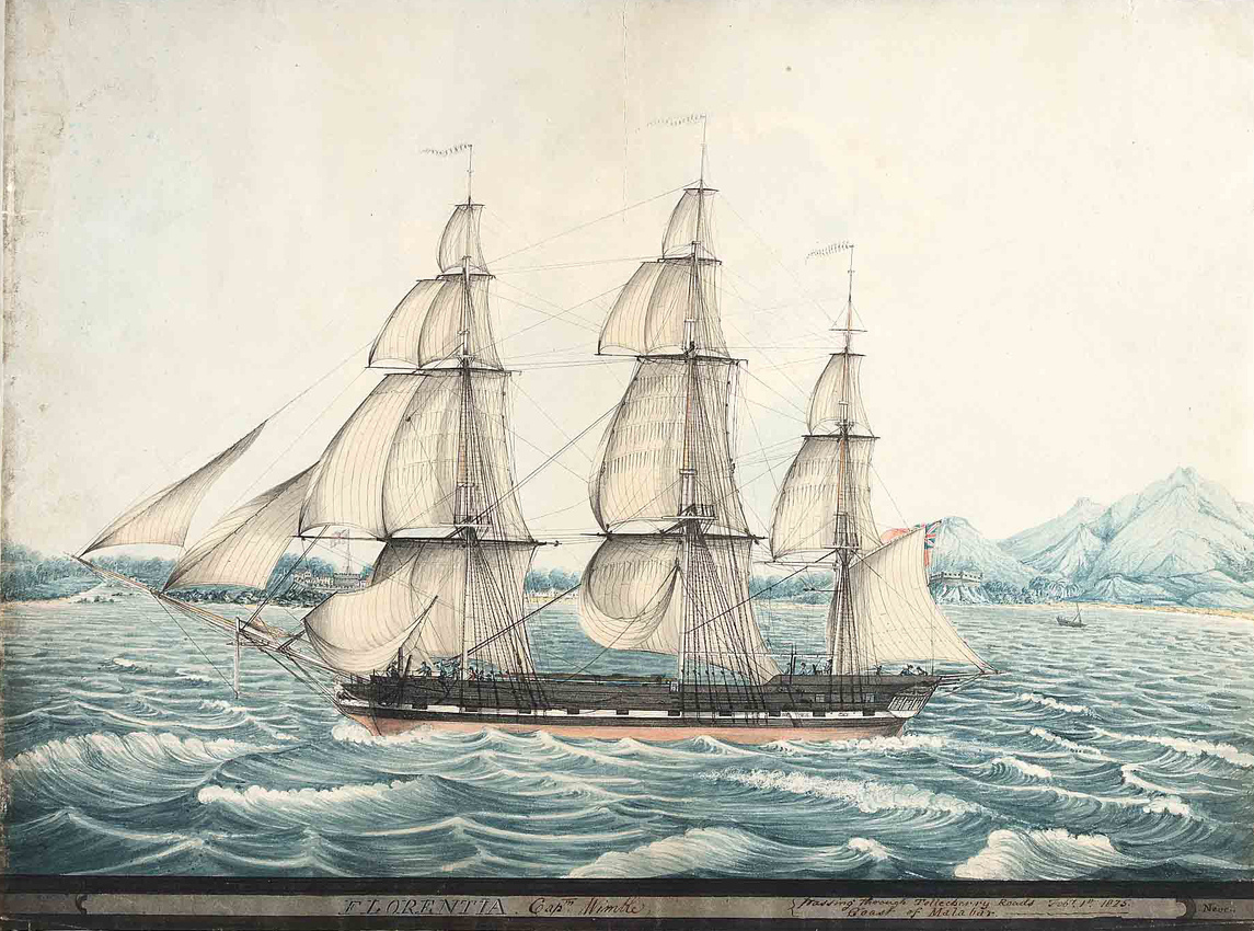 Florentia Captn Wimble. Passing through Telleberry Roads Feby 1st 1825 Coast of Malabar Drawing Florentia Captn Wimble. Passing through Telleberry Roads Feby 1st 1825 Coast of Malabar